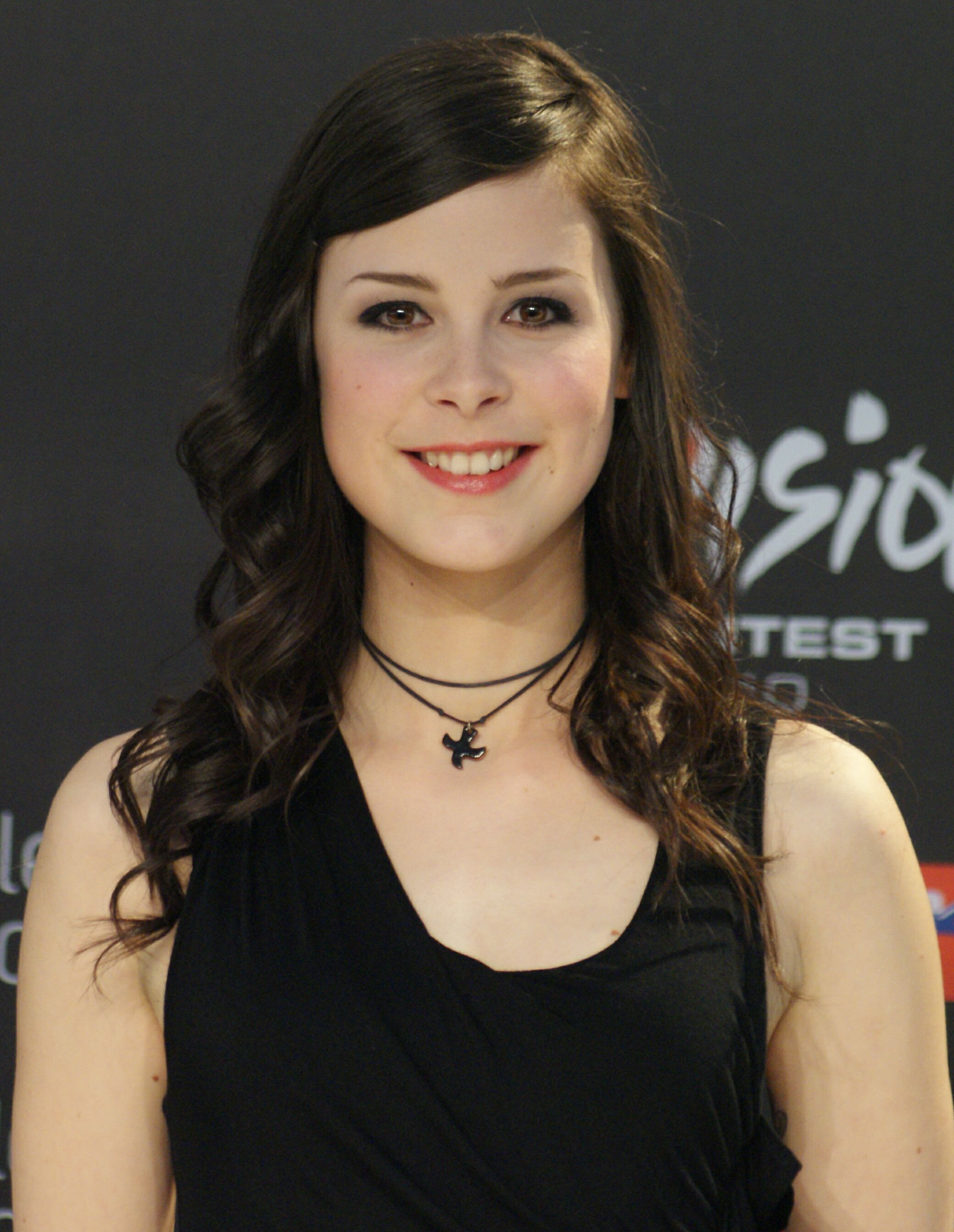 Lena at Eurovision Song Contest 2010.